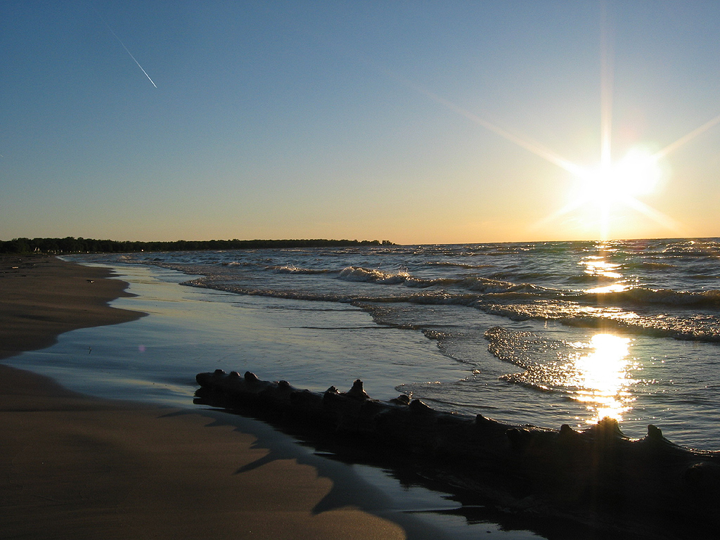 Taken May 2004, from Ipperwash Beach, near Sarnia.